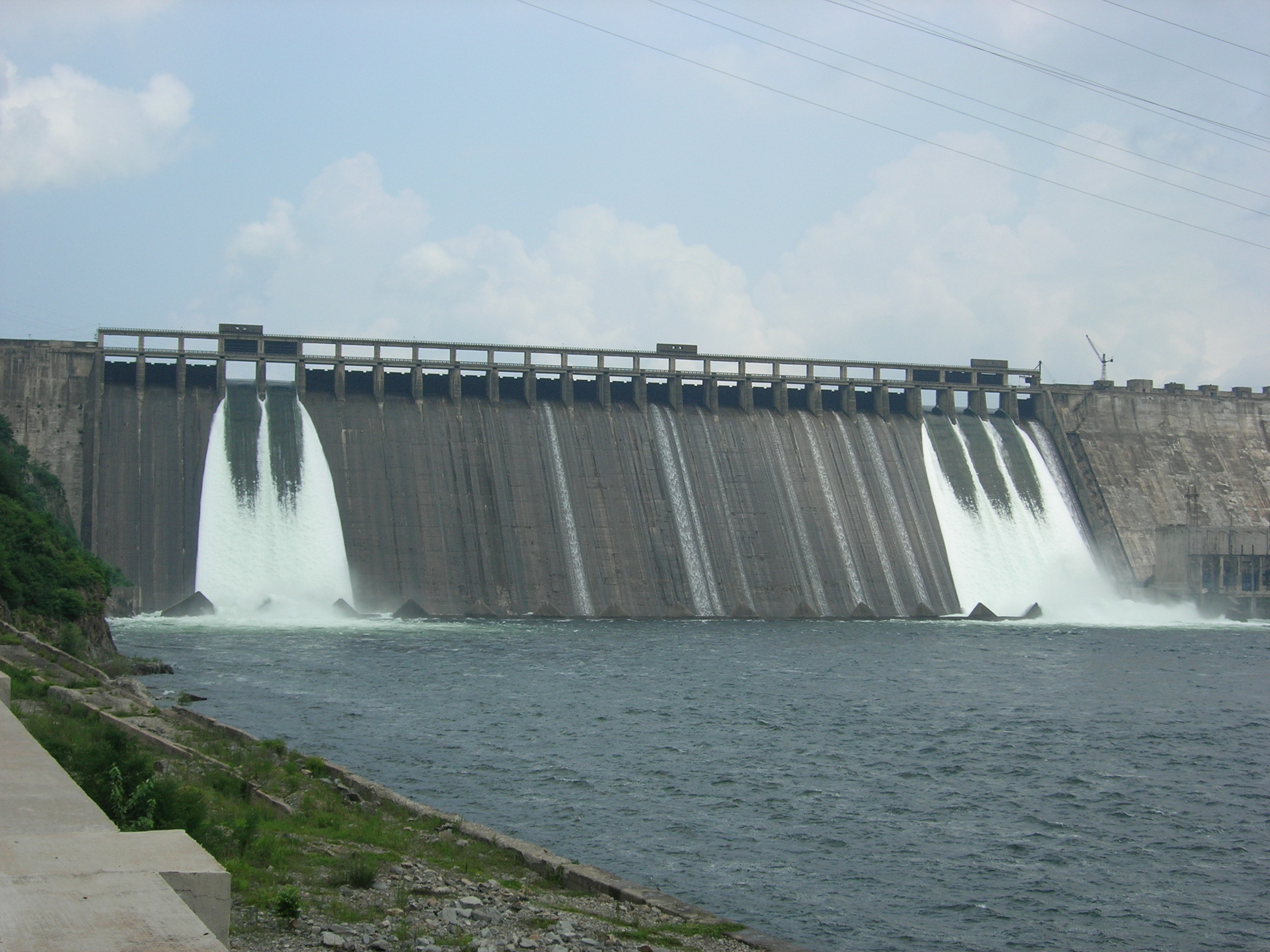 The Supung Dam on the Yalu River bordering China and North Korea.